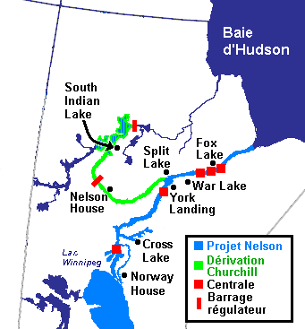 Principaux villages des Nations cries (Cris, Amérindiens) affectées par le Projet hydroélectrique du fleuve Nelson (1957-1990), Manitoba, Canada Princial villages of the Cree Nations (Crees, North American Indians) impacted by the Nelson River Hydroelectric Project (1957-1990), Manitoba, Canada. Modification: "Complexe-Nelson.png".